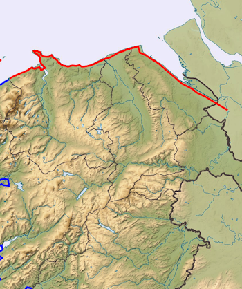 North Wales = Wales Coast Path